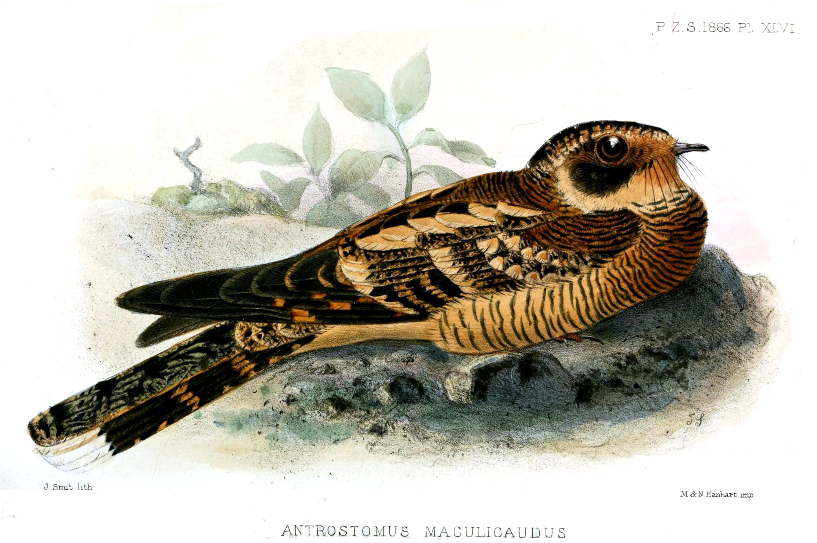 Spot-tailed Nightjar, adult male